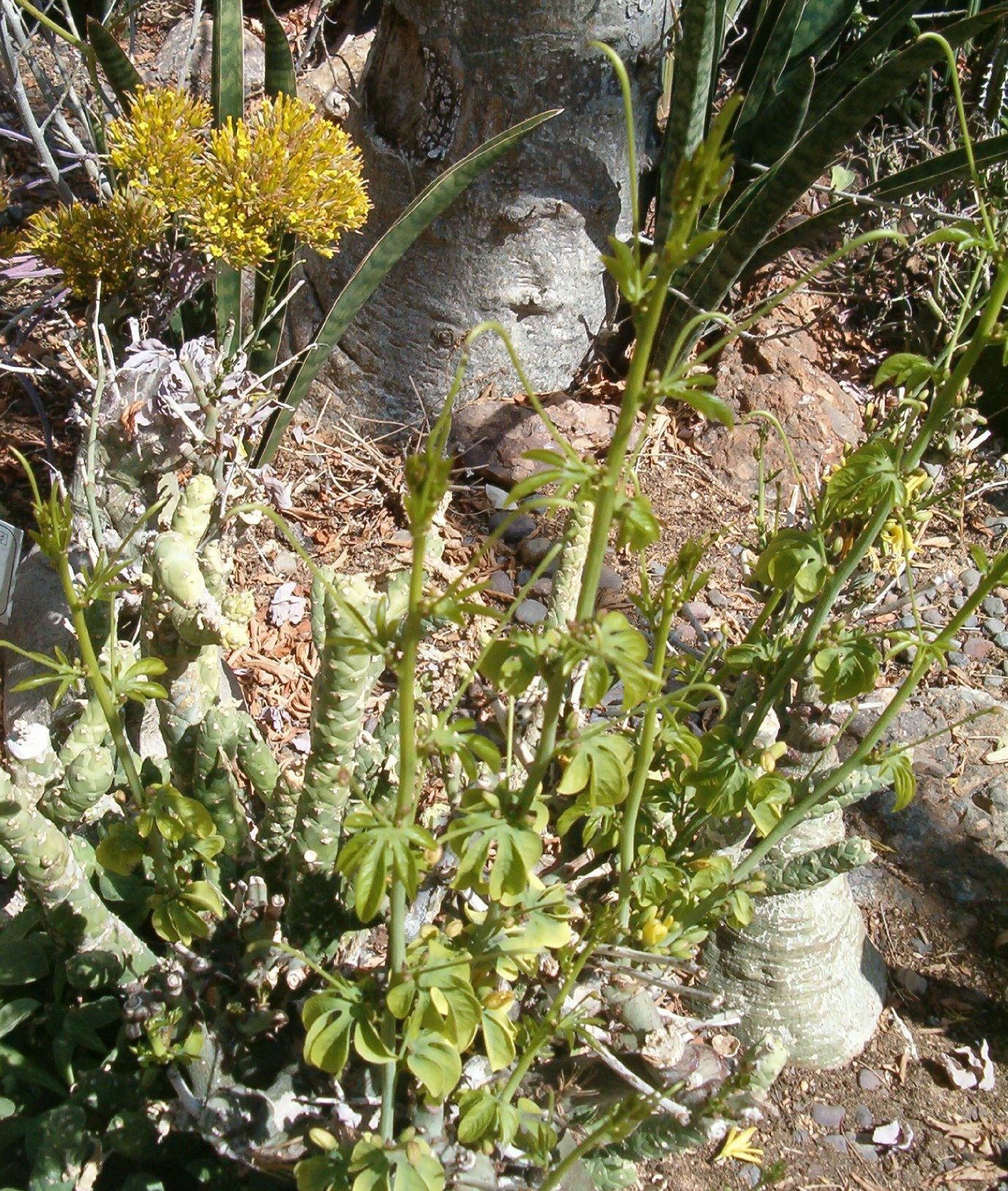 At Kirstenbosch National Botanical Gardens Species Adenia clauca